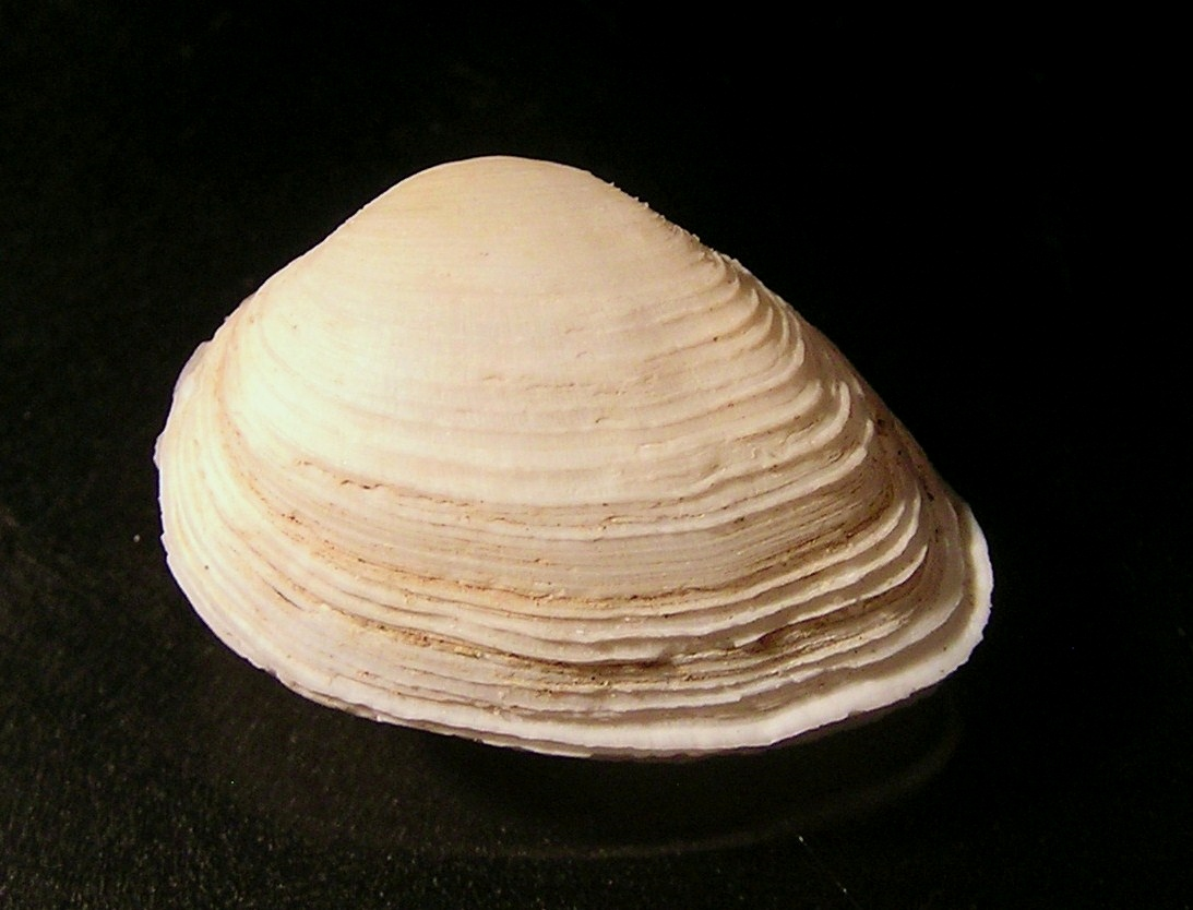 Gastrana matadoa (Gmelin, 1791) , a ridged tellin form the family Tellinidae; South Africa